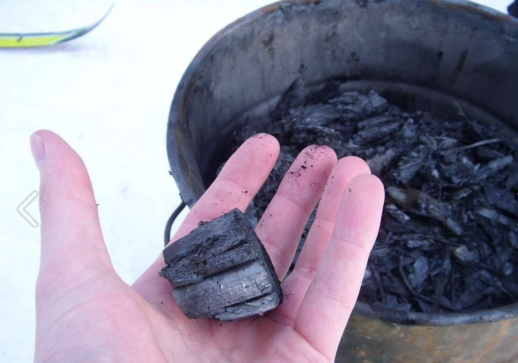 Home made biochar